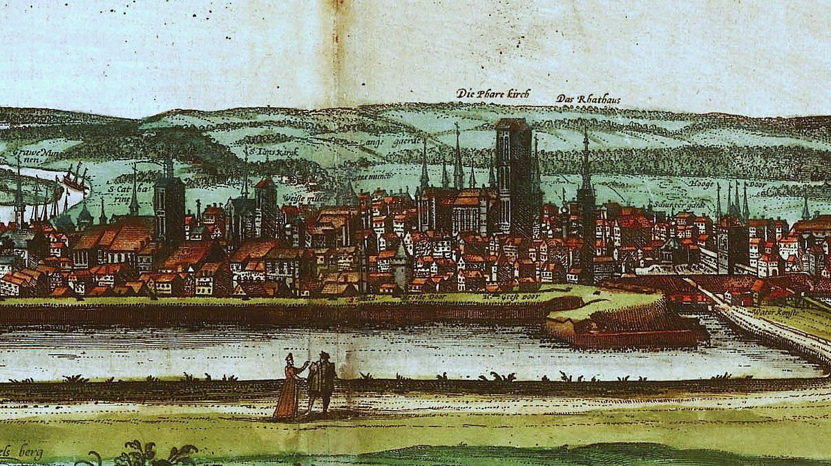 A View of Gdańsk (Poland) ca. 1575.